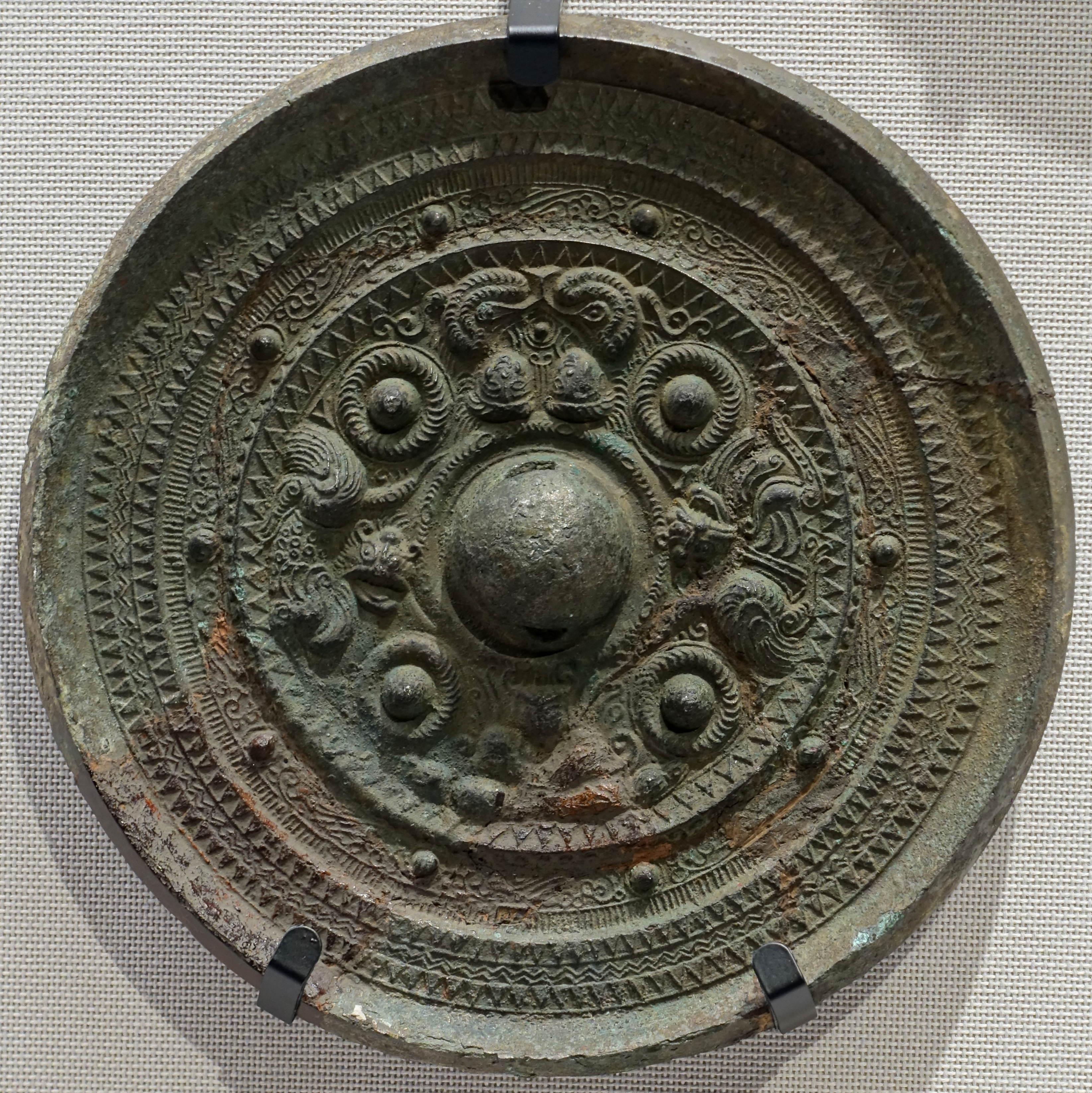 Exhibit in the Tokyo National Museum - Tokyo, Japan.